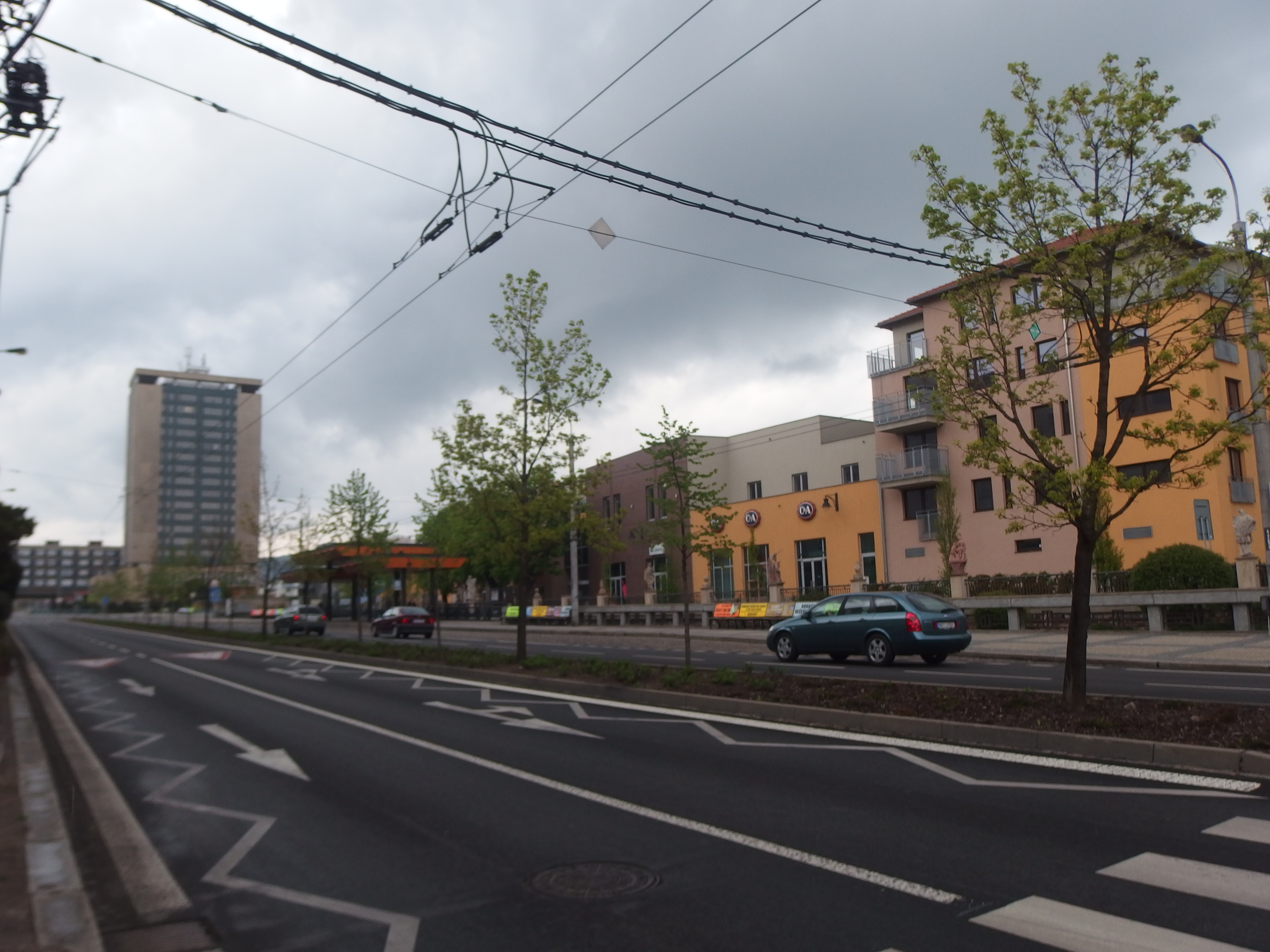 Chomutov, Czech Republic.